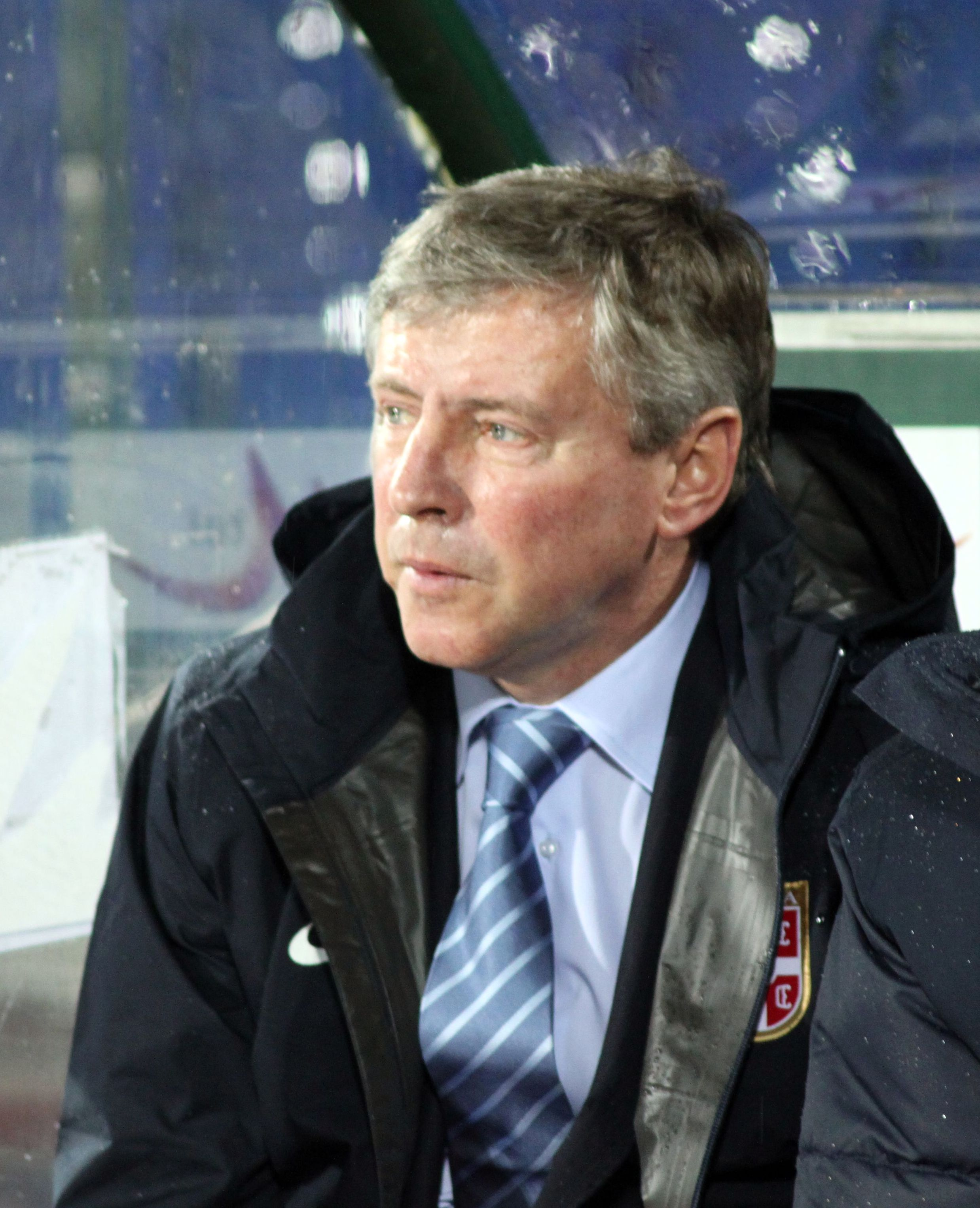 Vladimir Petrović (Serbian: Владимир Петровић) (born July 1, 1955 in Belgrade, Serbia, widely known by his nickname Pižon (Serbian: Пижон, after the French for pigeon) is a Serbian former football player and coach, managing the Serbian national team as of 2010.